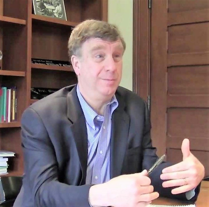 The discussions on legal education have drawn much attention in recent years, but too often they are limited within one place or one group of people. This project intends to help overcome these limits. Through recording short video statements on legal education reform and make them available online, we intend to create a forum that involves law school deans, leading professors, practitioners, and students from different countries in the world. We urge your participation through either making comments on the video or submitting your own videos to us. Let your ideas about the future of legal education be heard. This initiative is part of the series of projects leading up the the Global Legal Education Forum to take place March 23-25, 2012 at Harvard Law School. We encourage everyone to participate! Video crew: Rui Guo Gisela Mation Gustavo Ribeiro Daniel Vargas Becky Wolozin Lisa Kelly Heidi Matthews Gerard Kennedy Ethan Prall